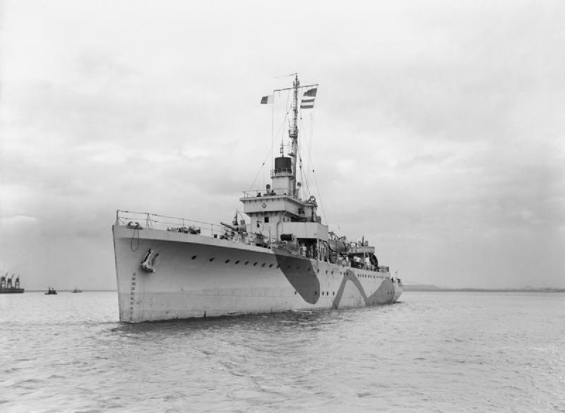 Photograph of British sloop HMS Milford.